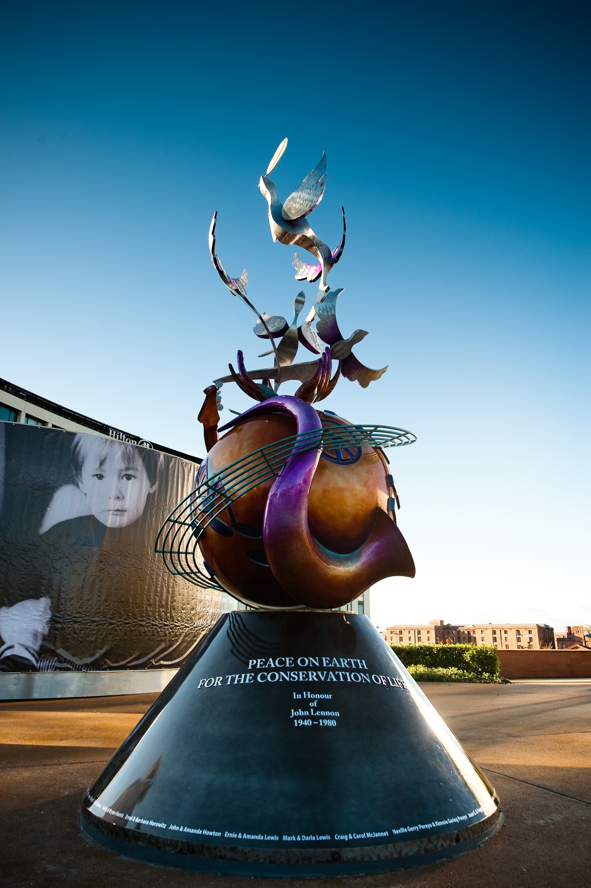 A photograph of the John Lennon Peace Monument that was unveiled on John Lennon's 70th Birthday by Julian and Cynthia Lennon on October 9th 2010 in Chavasse Park, Liverpool, England.